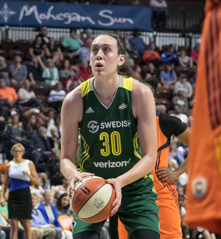 Seattle Storm forward Breanna Stewart (30) taking a free throw.